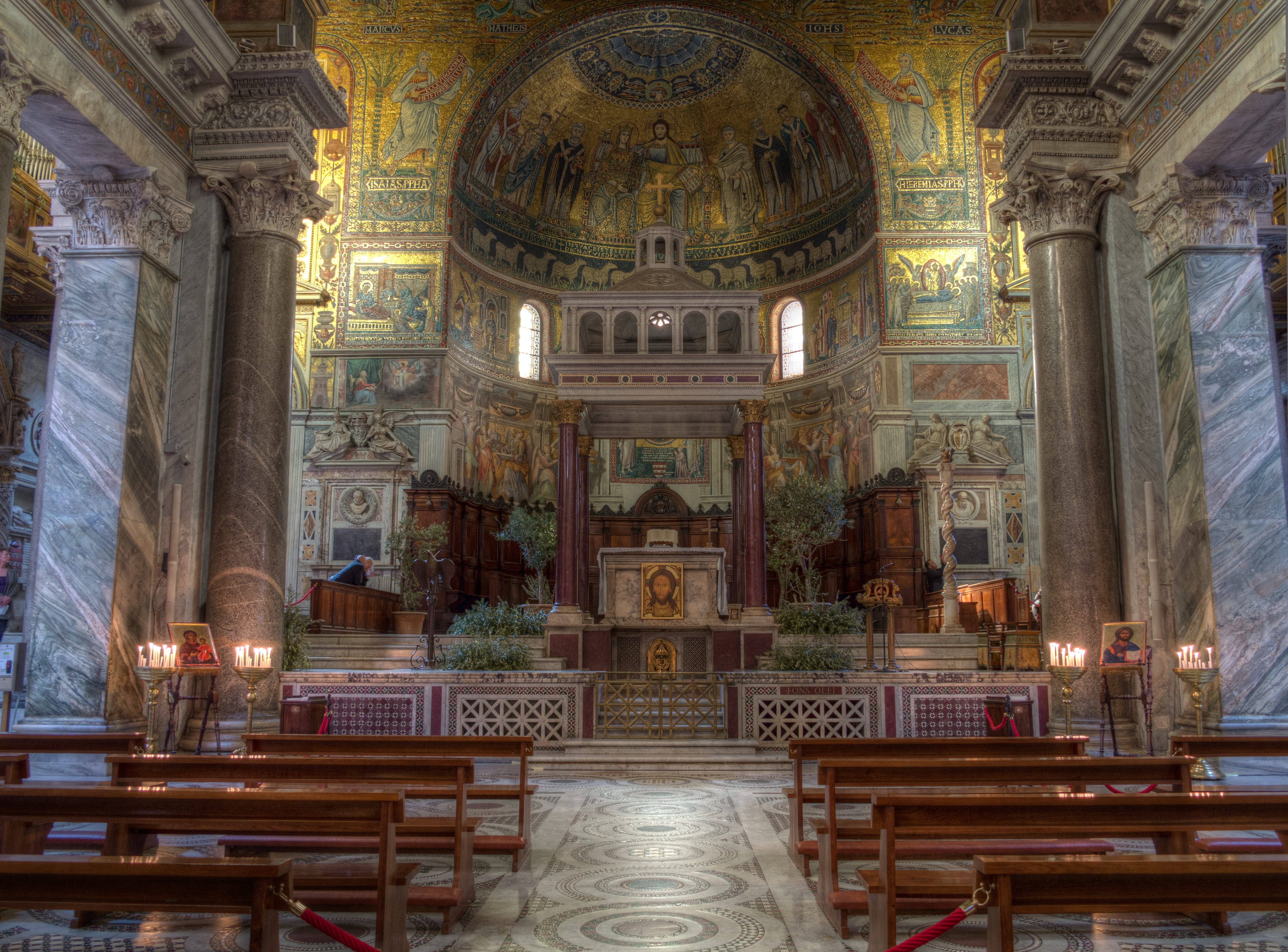 Santa Maria in Trastevere in Trastevere in Rione XIII / Trastevere in Rome / Italy / EU.